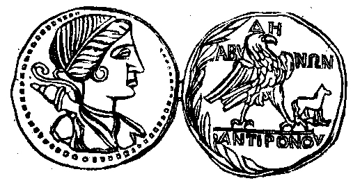 Coin from Abydos